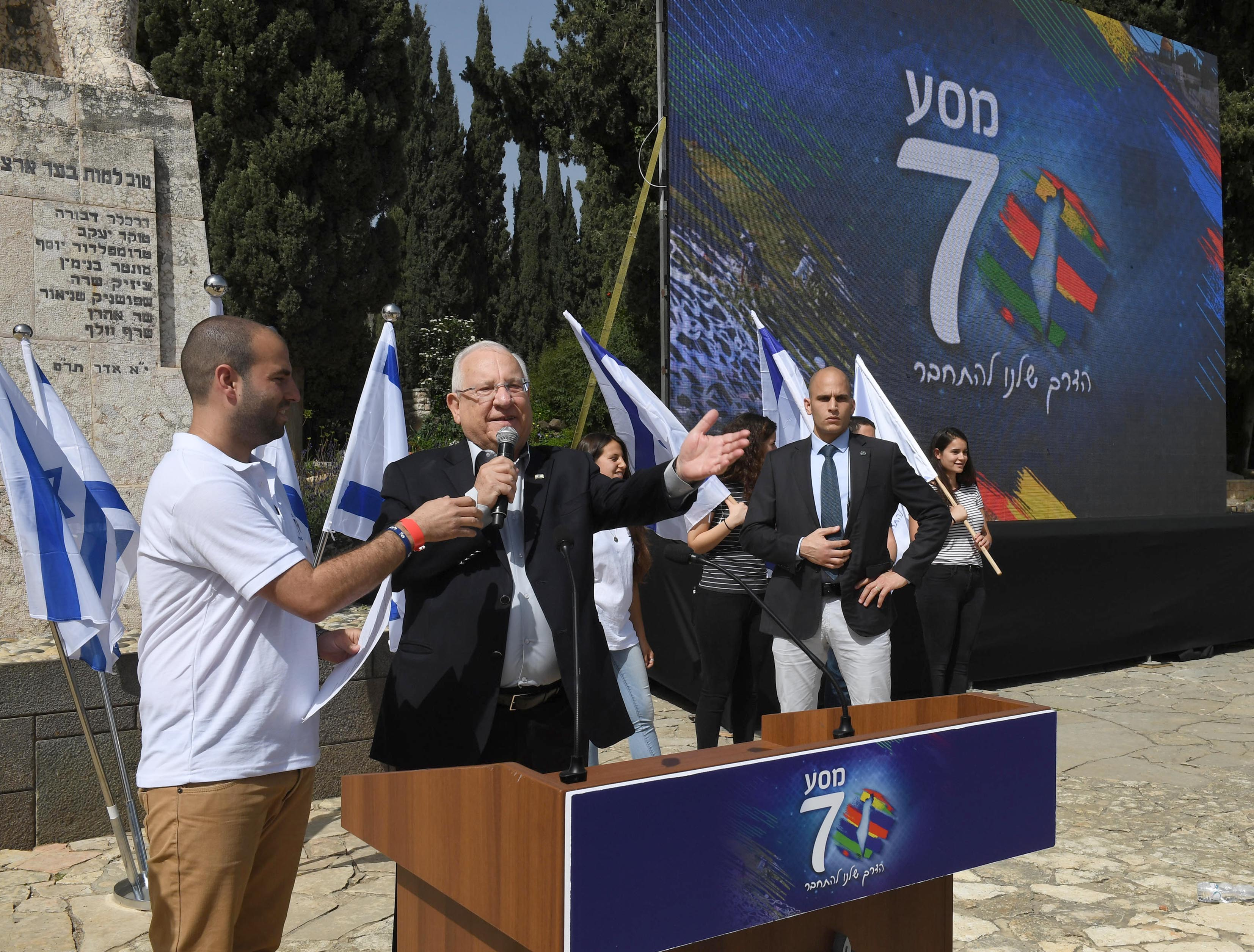 President of Israel, Reuven Rivlin, launching the "Masa70," a special envoy's journey to celebrate the country's seventieth year and cross Israel. Monday, March 18, 2018. Photo Credit: Mark Neyman / GPO. Depicted person: Reuven Rivlin – Israeli politician, 10th President of Israel Depicted place: Tel Hai